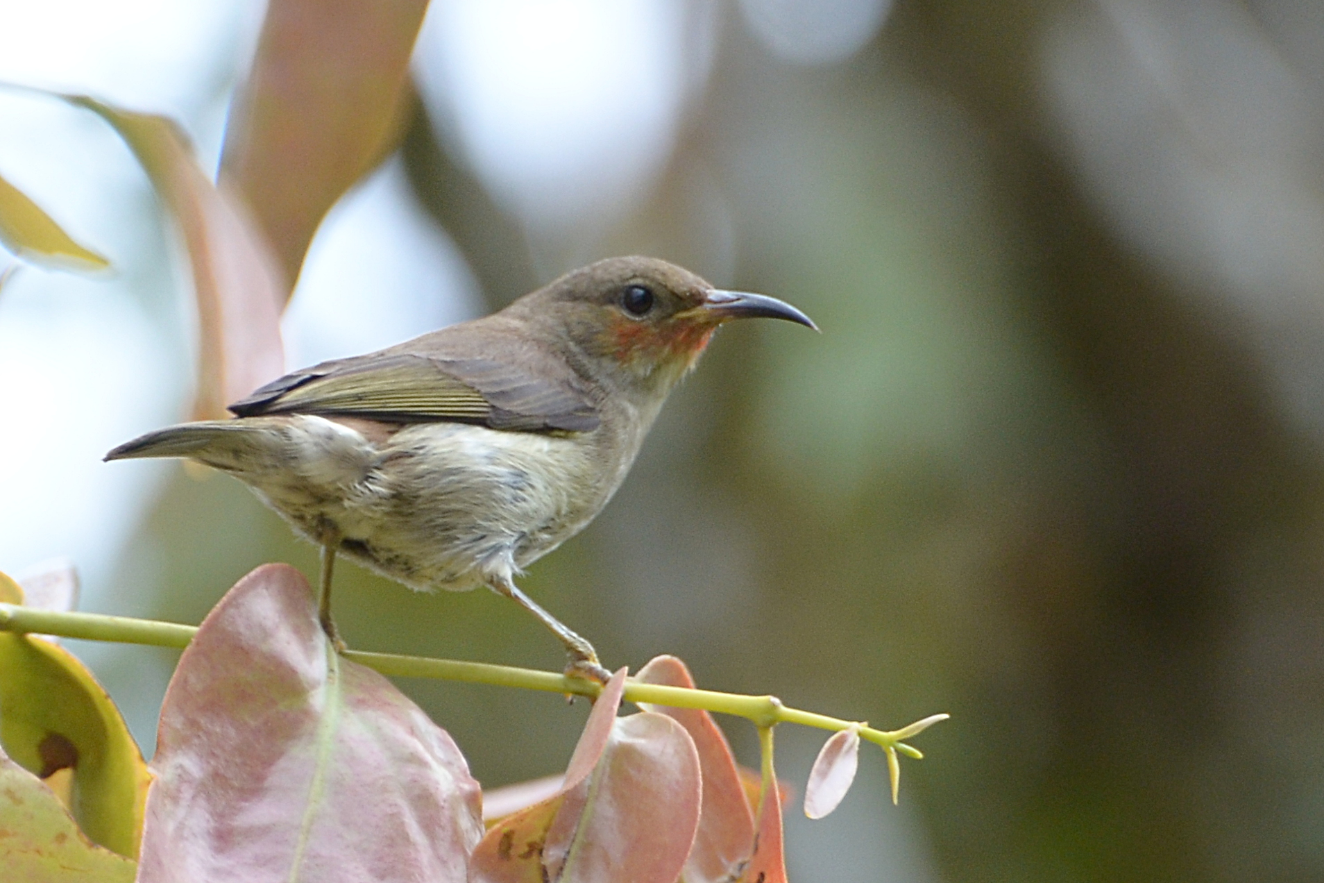 Female of sulawesi myzomela (Myzomela chloroptera) at Mount Mahawu Protected Forest, North SulawesiBahasa Indonesia: Betina myzomela sulawesi (Myzomela chloroptera) di Hutan Lindung Gunung Mahawu, Sulawesi Utara